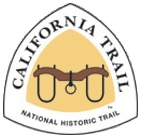 California Historic Trail Auto Tour Road Marker